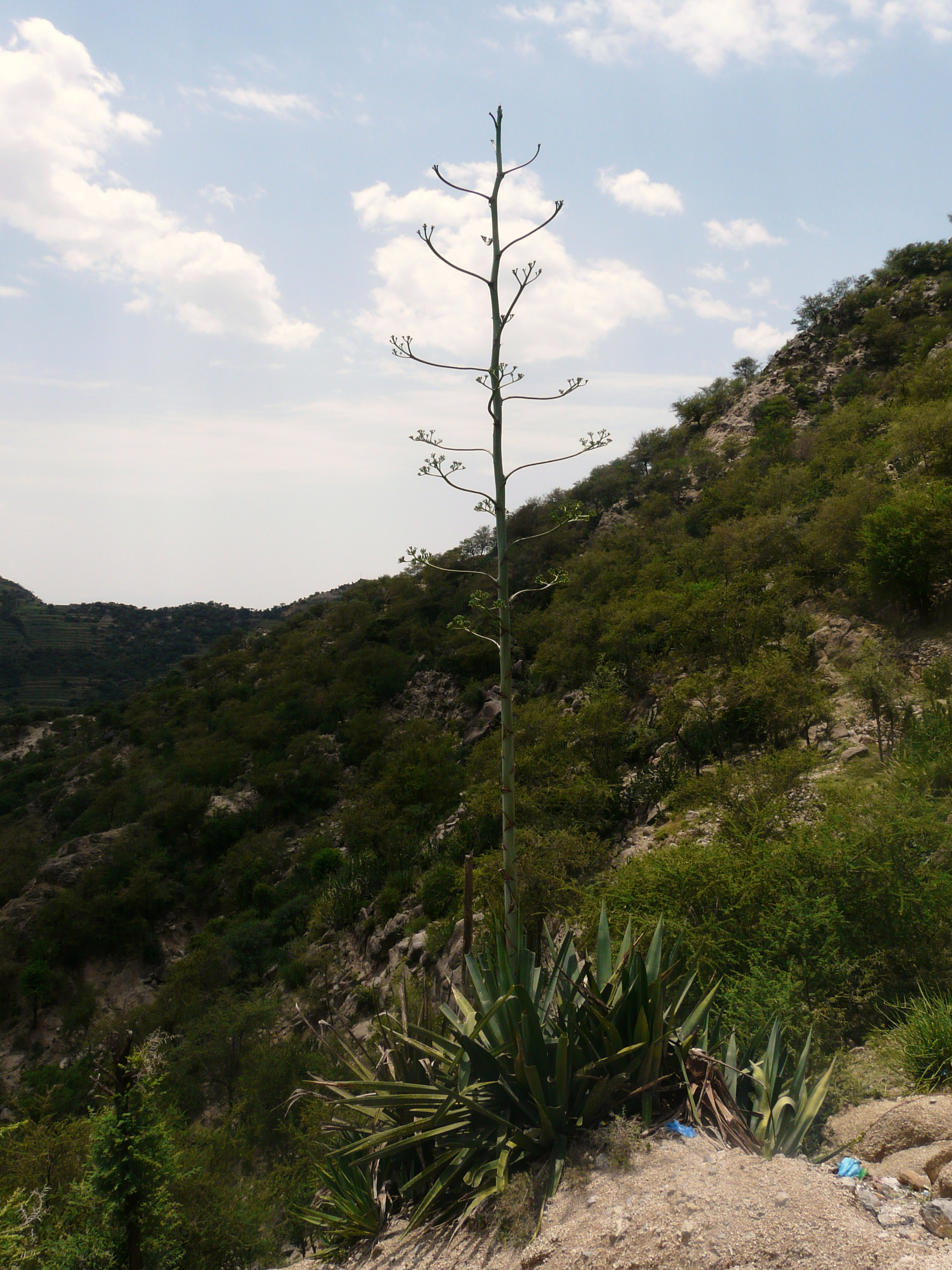 Agave from Yemen. Can grow up to 10m.